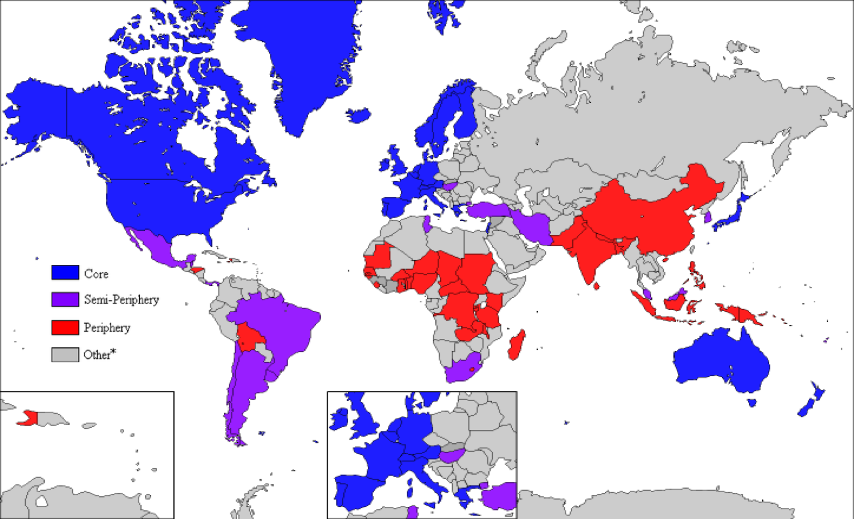 Core, periphery, and semiperiphery (1975 - 2002) based on GNP per capita. Countries that consistently fell into a particular class over the 28-year period of analysis. Taken from Salvatore J. Babones' essay, "The country-level income structure of the world-economy," Journal of World-Systems Research 11, no. 1 (2015): 29-55 [1]. Core: Australia, Austria, Belgium, Canada, Denmark, Finland, France, Germany, Greece, Hong Kong, China, Iceland, Ireland, Israel, Italy, Japan, Luxembourg, Netherlands, New Zealand, Norway, Singapore, Spain, Sweden, Switzerland, United Kingdom, United States. Semiperiphery: Belize, Brazil, Chile, Fiji, Hungary, Jamaica, Malaysia, Mexico, Panama, Seychelles, South Africa, Tunisia, Turkey, Uruguay. Periphery: Bangladesh, Benin, Bolivia, Burkina Faso, Burundi, Central African Republic, Chad, China, Democratic Republic of Congo, Gambia, The Ghana, Guinea-Bissau, Haiti, Honduras, India, Indonesia, Kenya, Lesotho, Madagascar, Malawi, Mauritania, Nepal, Niger, Nigeria, Pakistan, Papua, New Guinea, Philippines, Rwanda, Senegal, Sierra Leone, Solomon Islands, Sri Lanka, Sudan, Togo, Zambia.